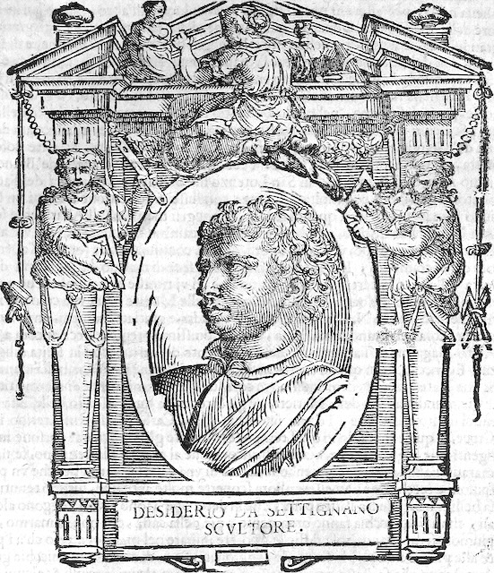 Illustratio from "Le Vite" by Giorgio Vasari, edition of 1568. For the artist portrayed see filename